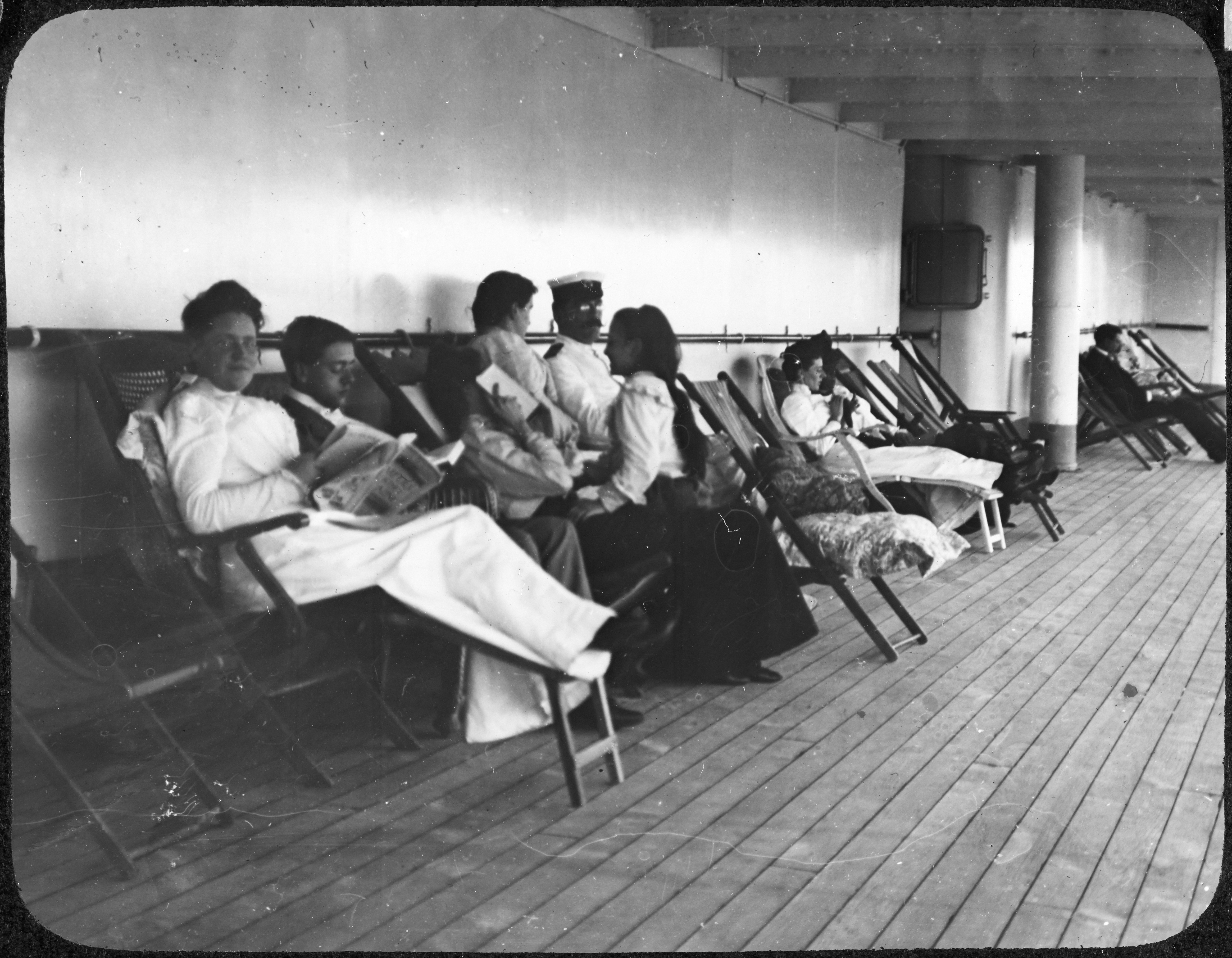 Covered deck of ship, with deckchairs. On board ship, either on voyage from England to West Indies, or within West Indies. Several ladies and gentlemen, sitting, reading or talking. Includes one ships officer.